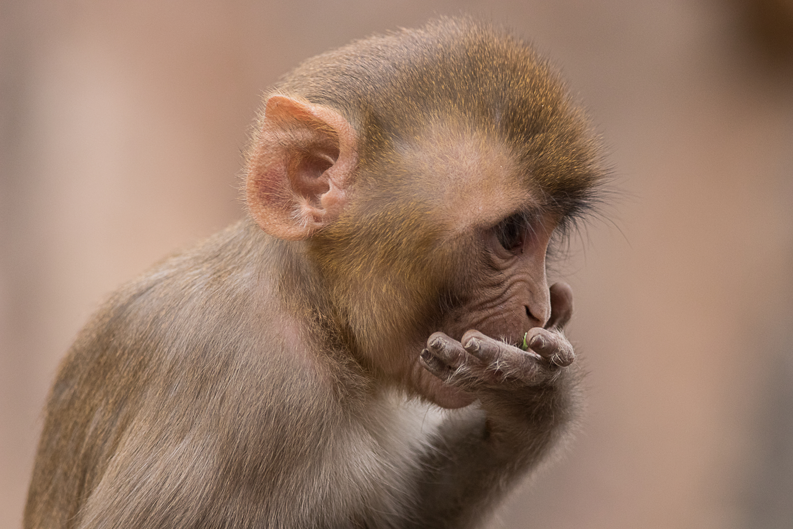 India, Rhesus macaque (Macaca mulatta), Galtaji Temple, ancient Hindu pilgrimage site in the town of Khania-Balaji, about 10 km away from Jaipur, India (photo, december 2017)